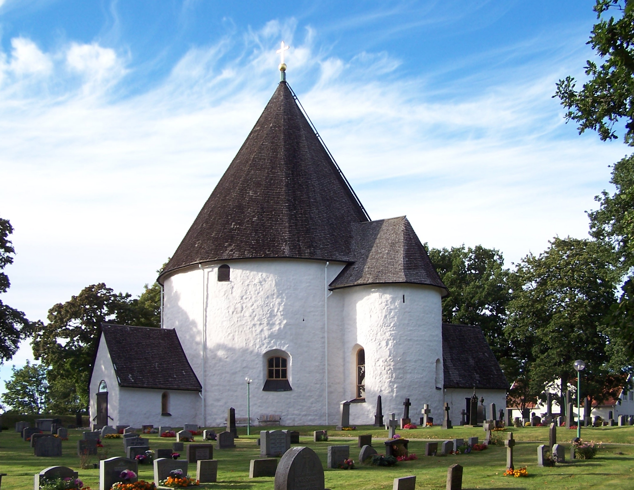 Hagby church, Sweden - Exterior